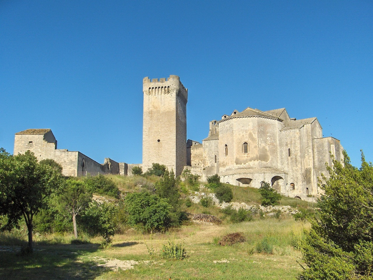 Montmajour Abbey (East Side)